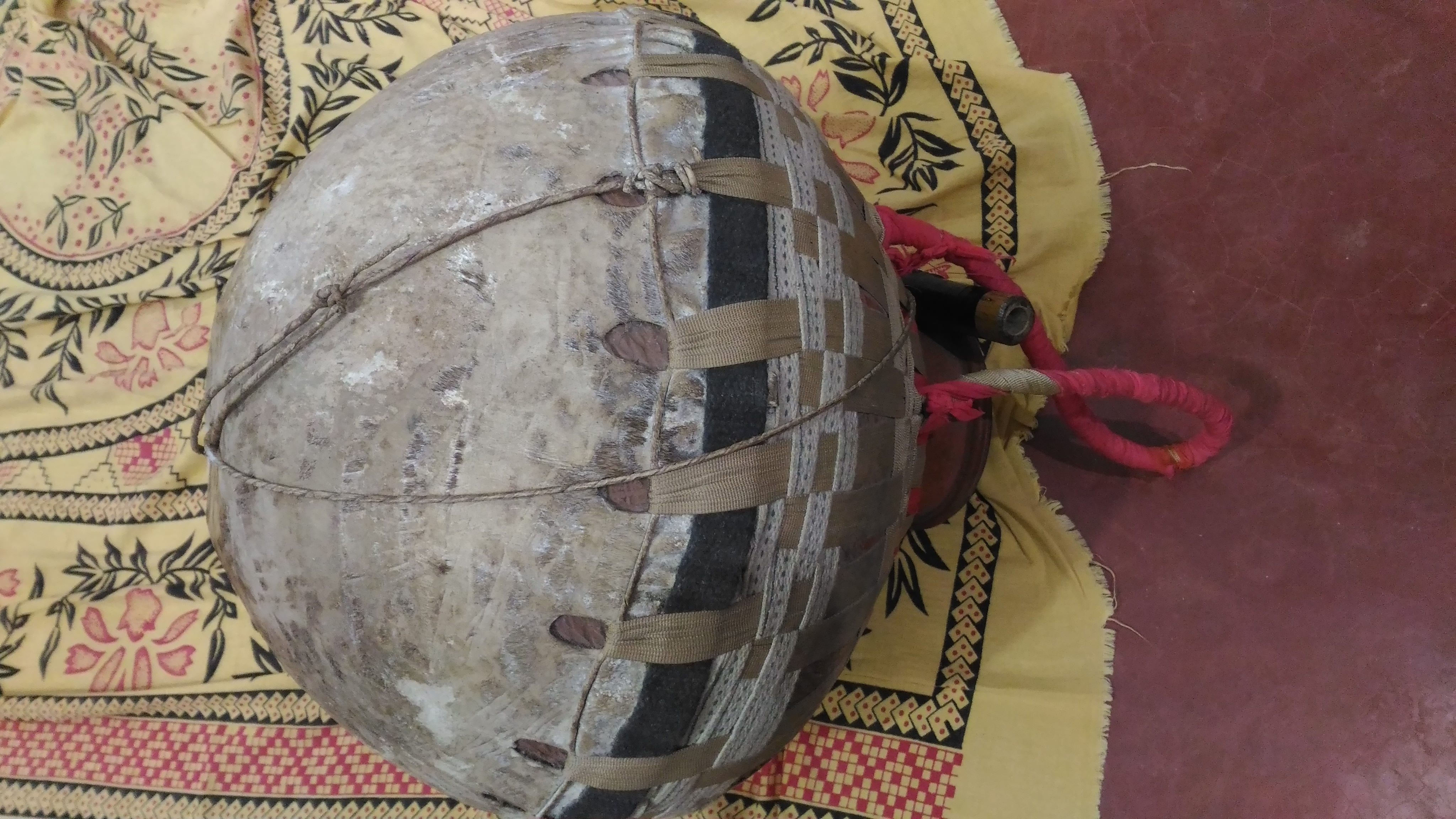 Pulluvan pattu